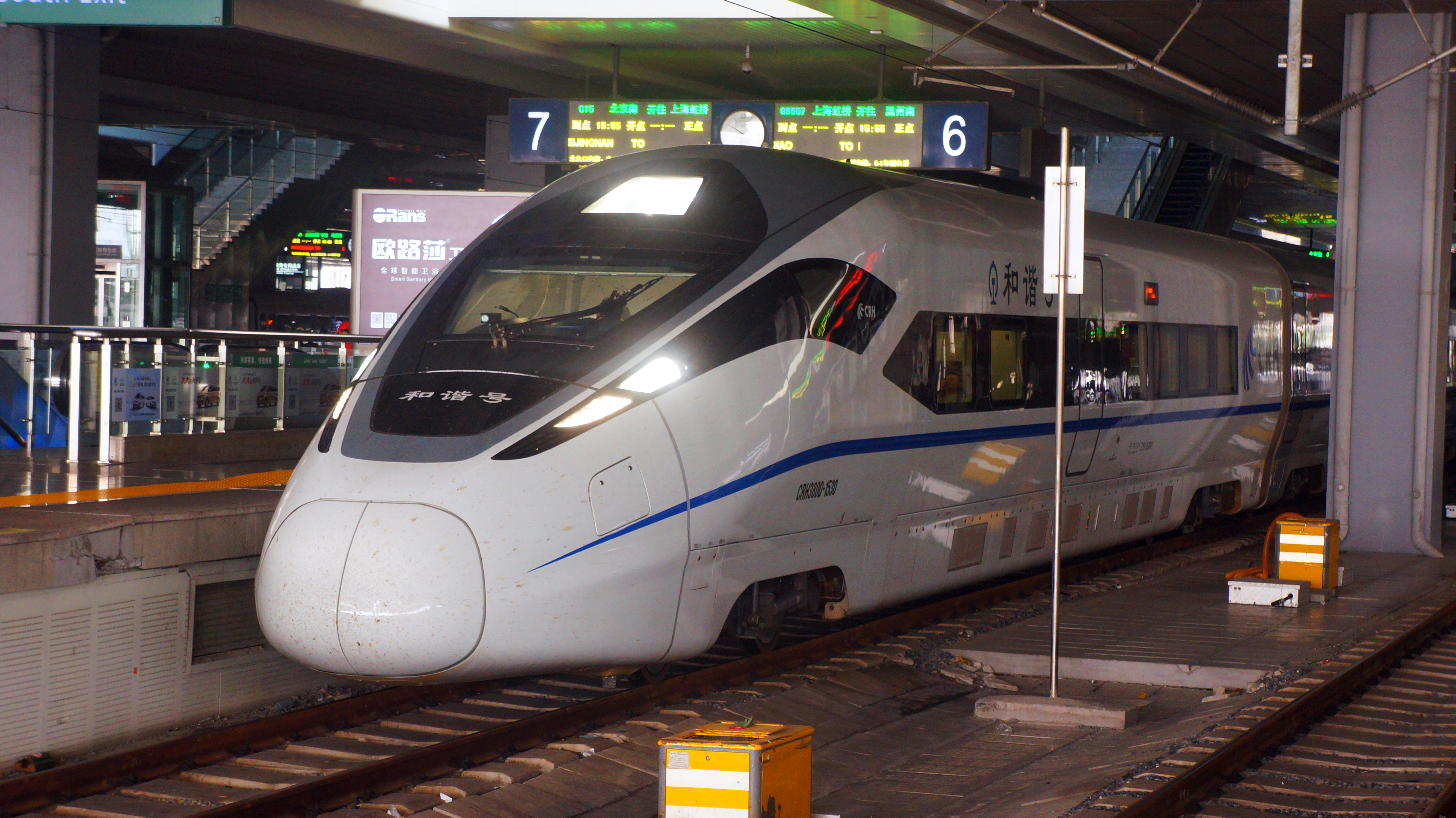 Temporary 380D train G9507(Shanghai Hongqiao to Wenzhounan) got ready to departure at Platform 6 of Shanghai Hongqiao Railway Station.